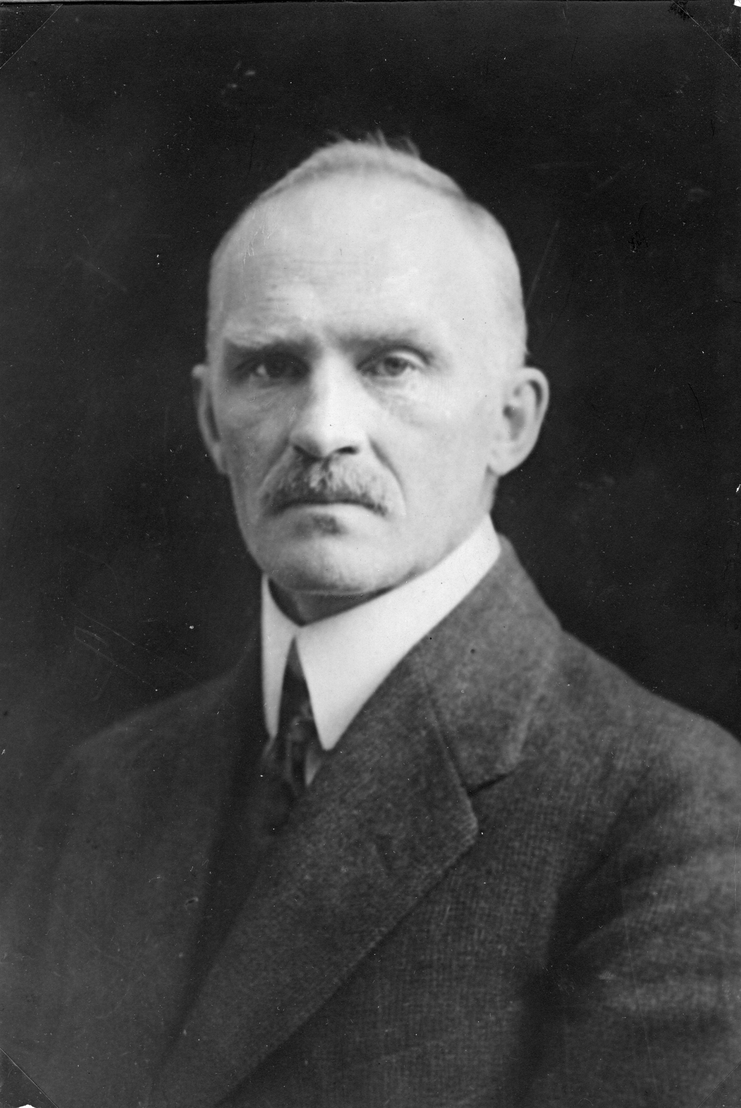 Photograph of the Finnish politician and economist Ernst Nevanlinna (1873–1932).